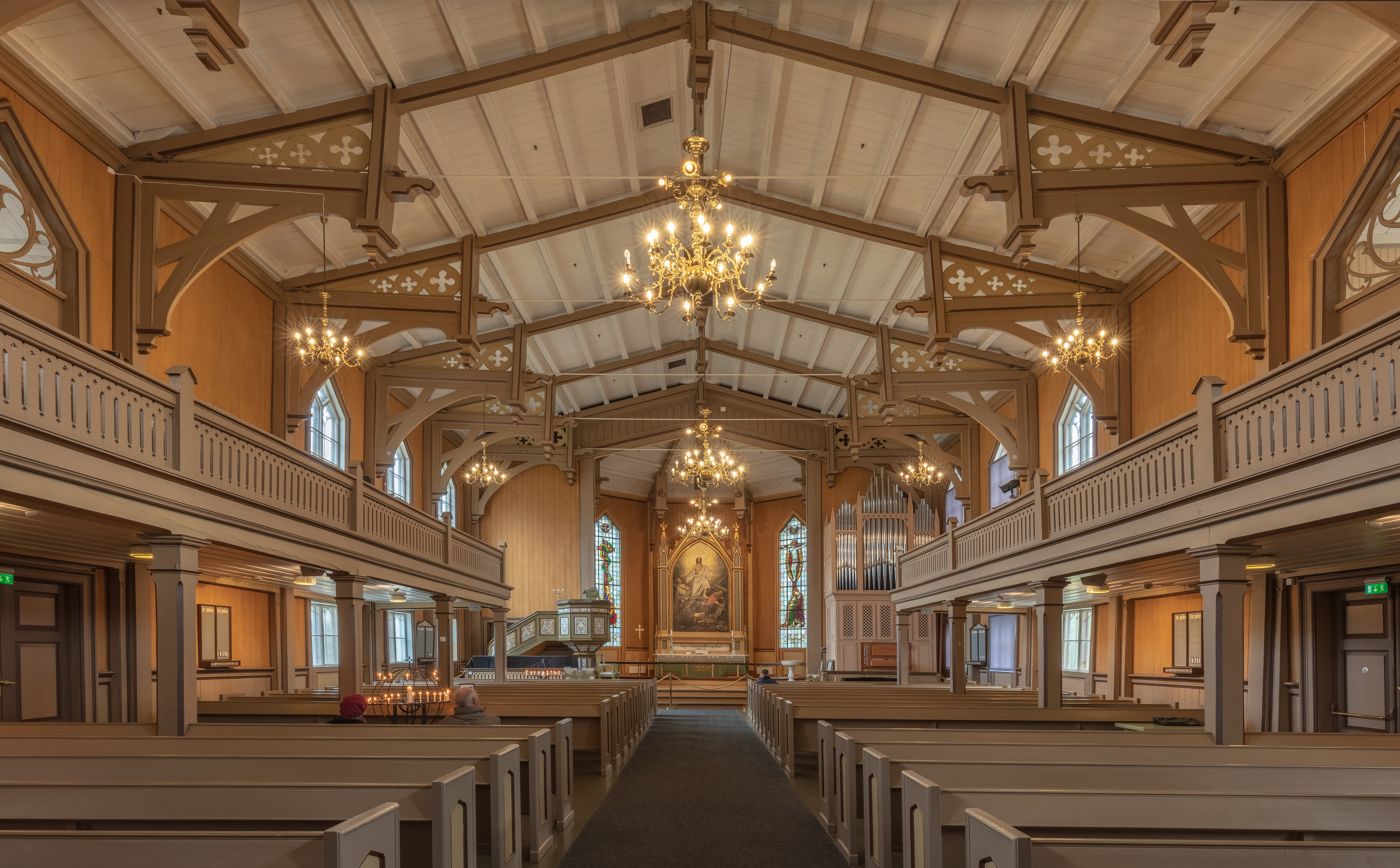 Cathedral, Tromsø, Norway